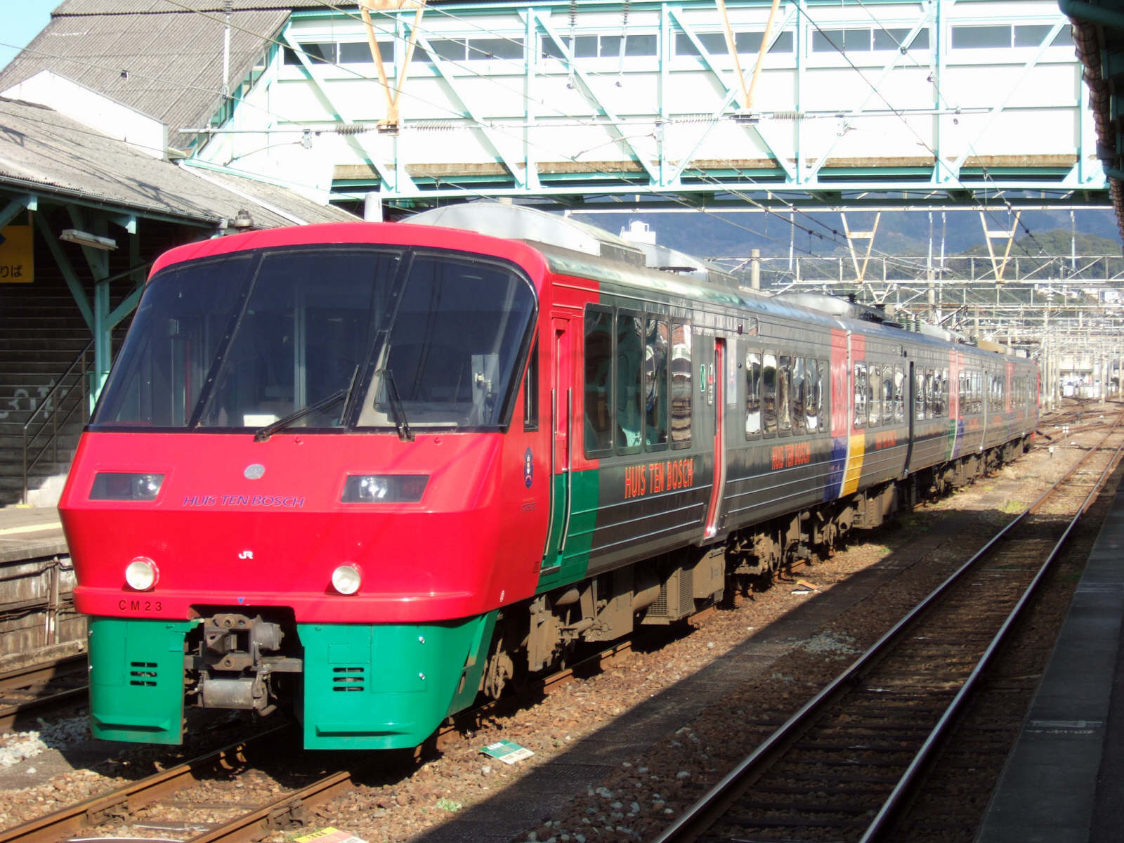 JR Kyushu 783 series EMU on a "Huis Ten Bosch" service at Haiki Station